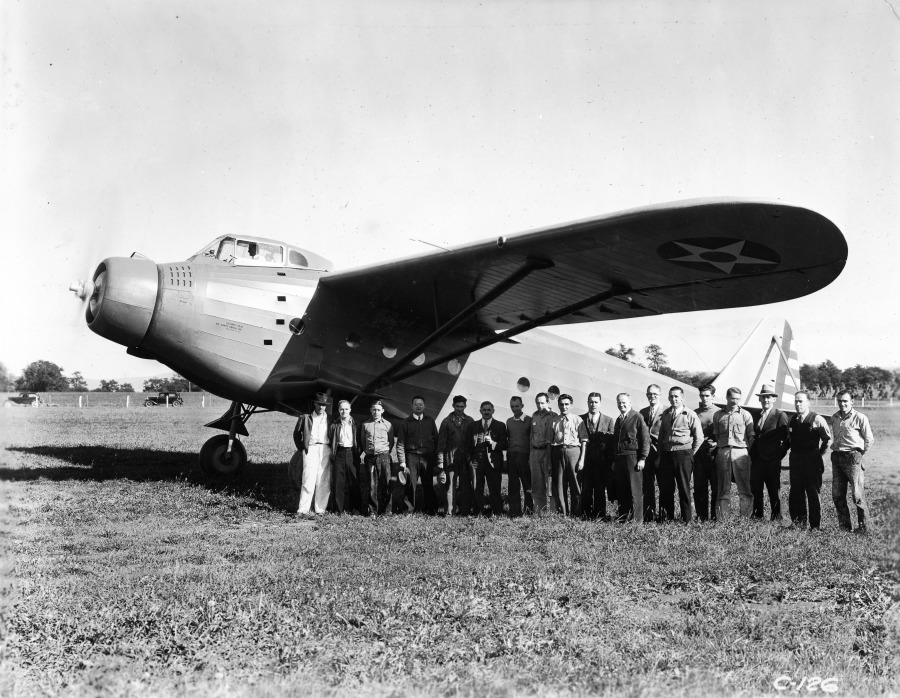 PictionID:56240395 - Catalog:AL253_000034.tif - Title:Fairchild XC-31 34-026 01 - Filename:AL253_000034.tif - Image from Album 253 which belonged to Franz Schell-----Please Tag these images so that the information can be permanently stored with the digital file.---Repository: San Diego Air and Space Museum